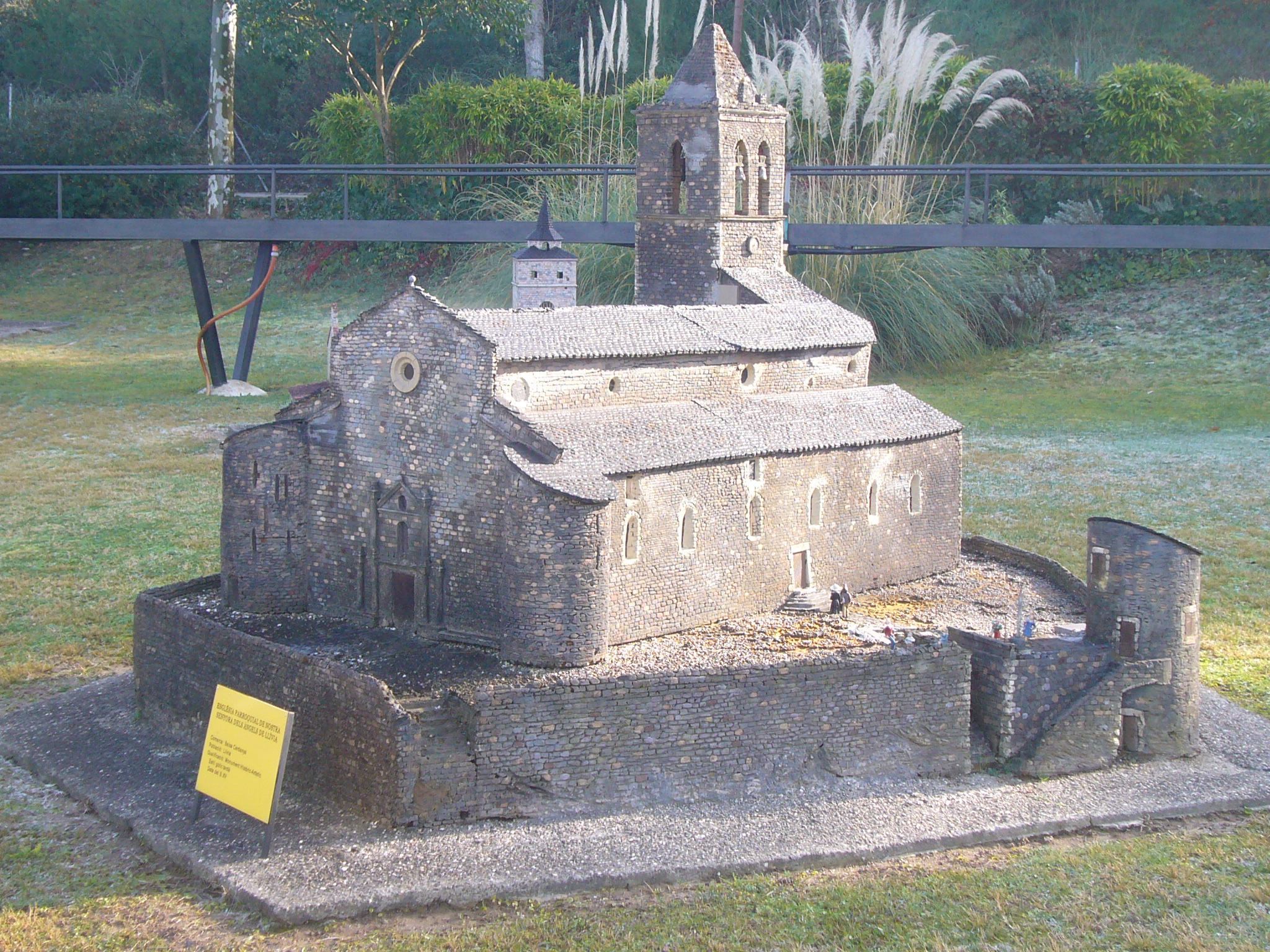 Scale model at the "Catalunya en Miniatura" miniature park : Church of Nostra Senyora dels Àngels (Llívia)